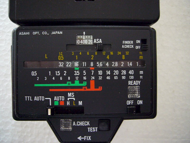 Calculation slider on the back of a Pentax AF-280T flash, set to 400 ASA. Own picture Caseman, march 2007